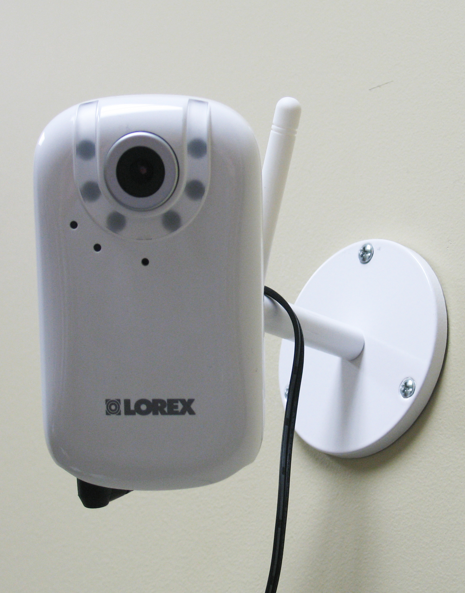 Where did it come from? MY personal camera. Here is an origional copy on MY blue-host server On page 4-5 you will see other images I took of the same ip camera. If you go through my gallery you will see many personal images all taken with the same camera (a few on my gallery are from my friends Camera; it will show it as a different camera in the image info section). Who created it and when? I took the image earlier today. My username is Kingrattus, my domain is , I'm known as kingrattus all over the interwebs(.com is NOT me), msn, gmail, & so on. What's it an image or clip of? Its an image of the Lorex LNE3003 easy connect ip camera